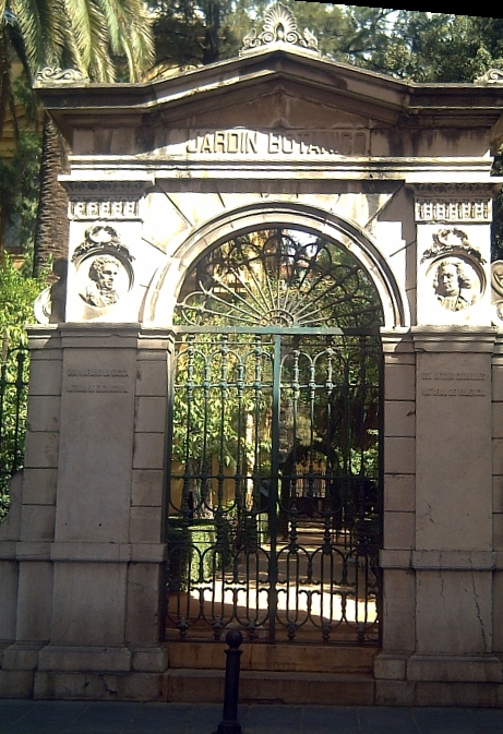 A work release by Javier martin, Jardín Botánico de la Universidad de Granada Granada, Spain 2006, October 7. A free donation to Wikipedia.